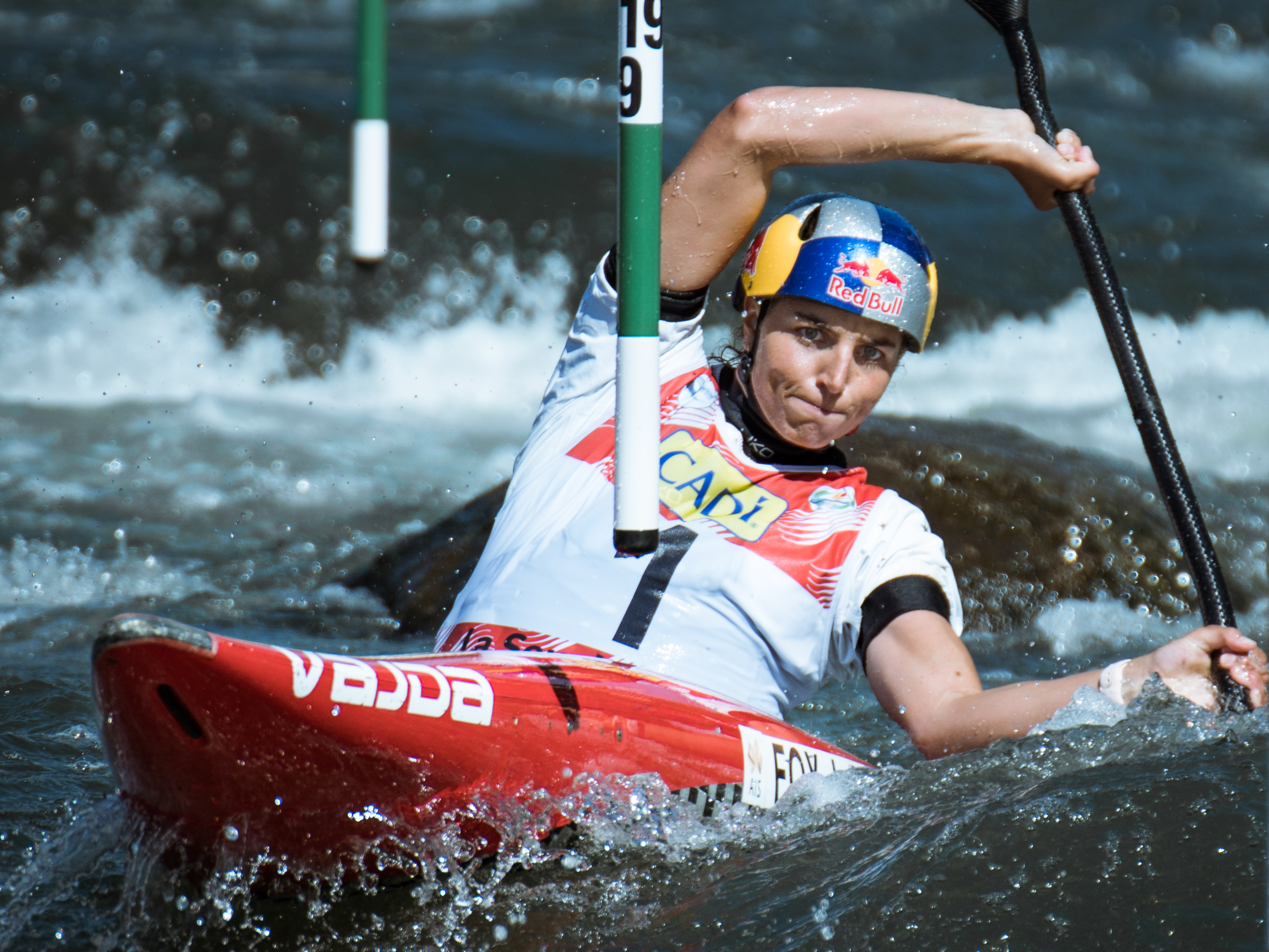 Jessica Fox during the 2019 Canoe Slalom World Championships in La Seu d'Urgell, Spain.